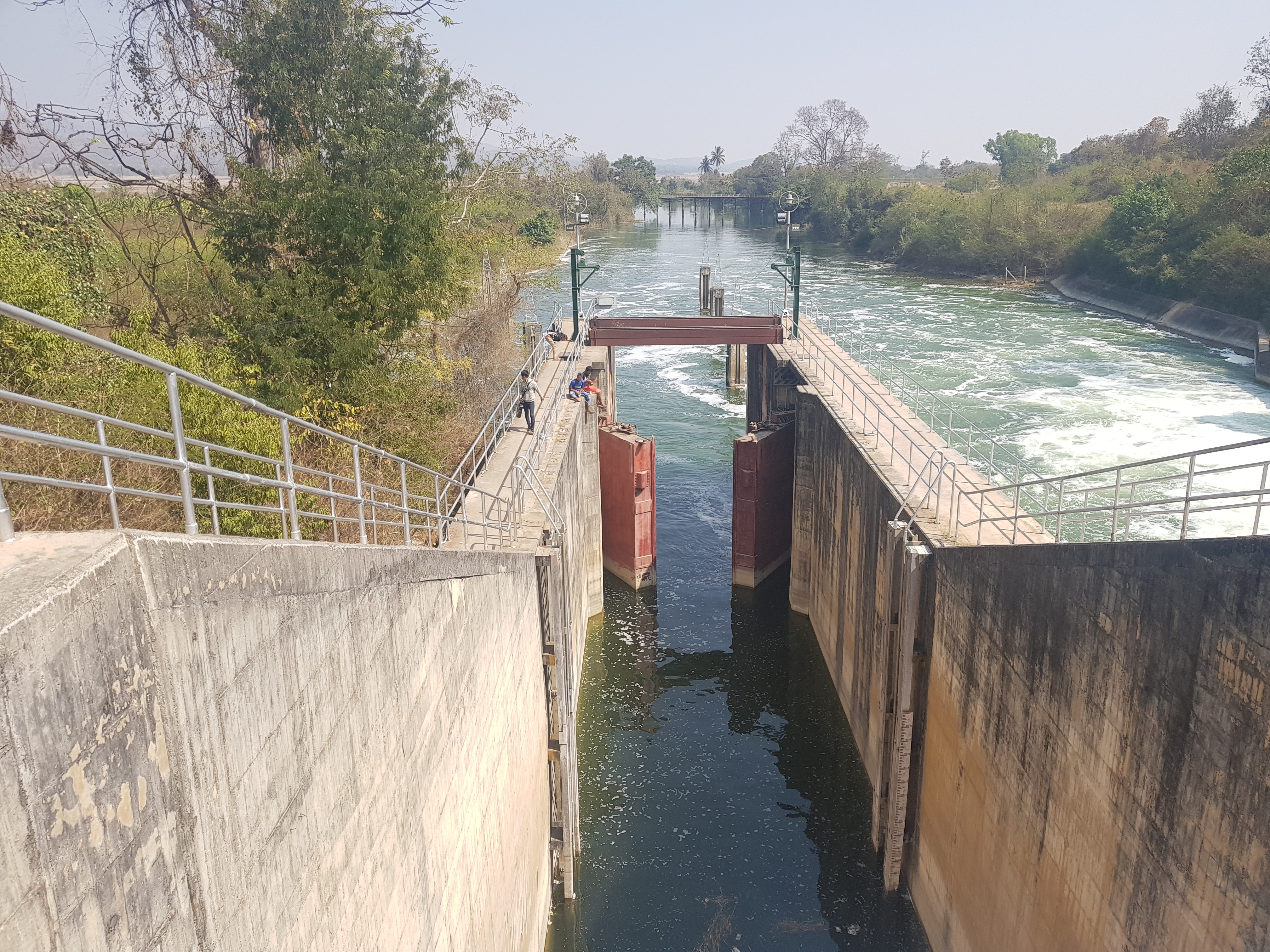 Canal between dam and Baluchaung river